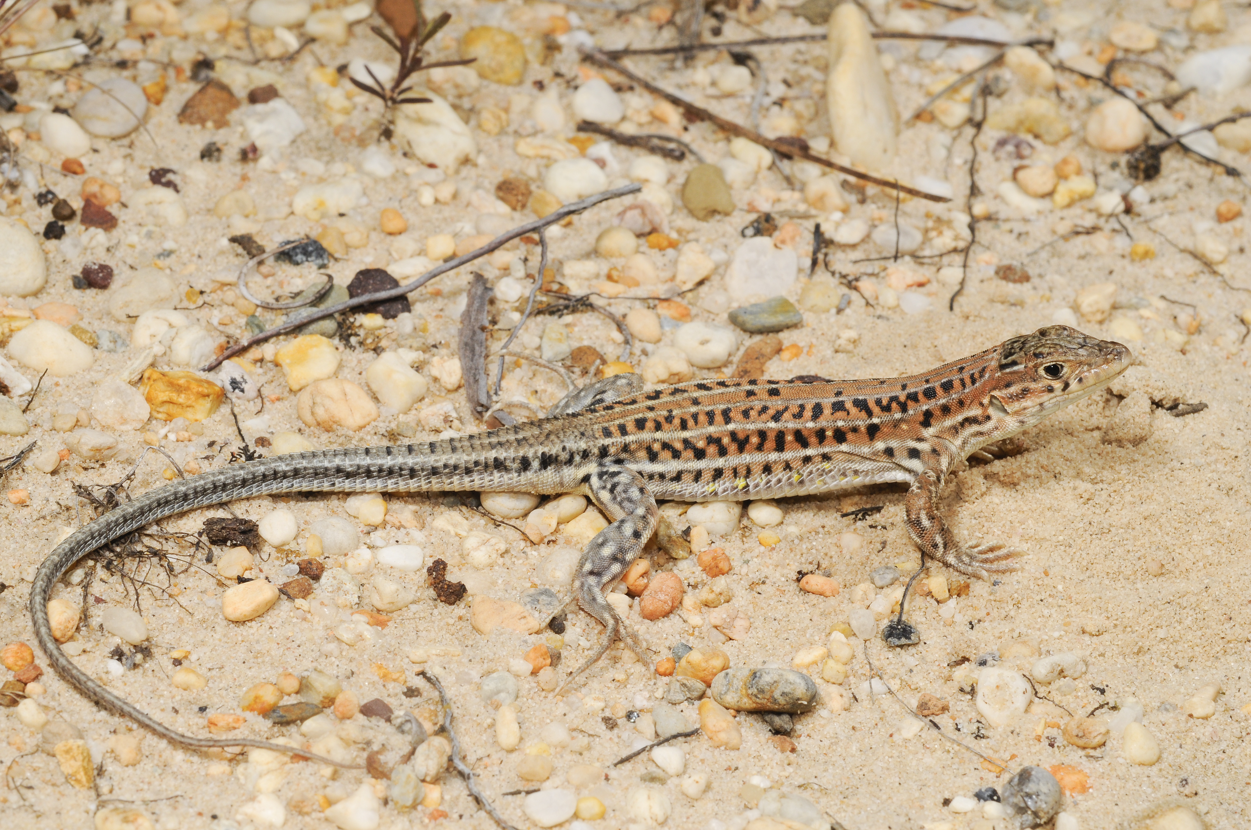 Acanthodactylus erythrurus